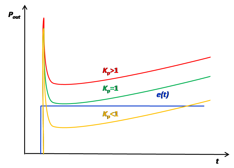 Response of the proportional term in an open-loop control mode. Different values are taen for Kp; whereas KI & KD are fixed.